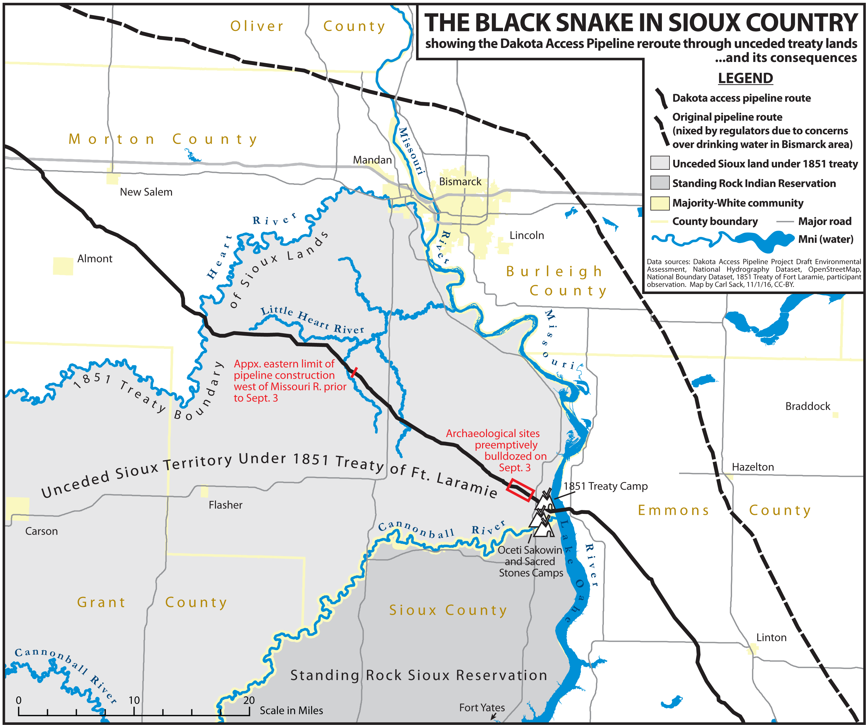 Dakota Access Pipeline reroute